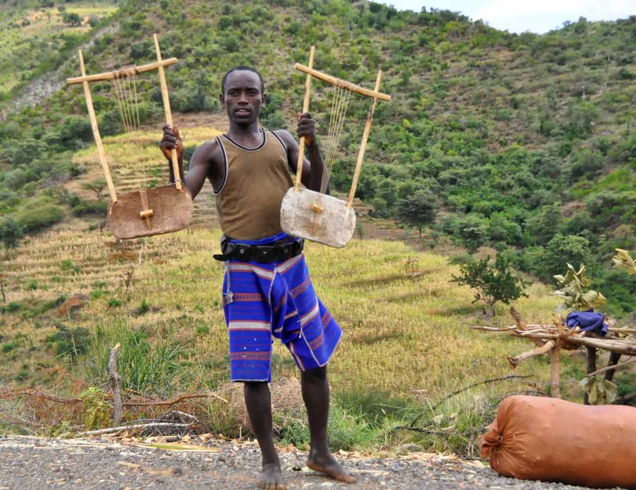 Konso Rd, Ethiopia